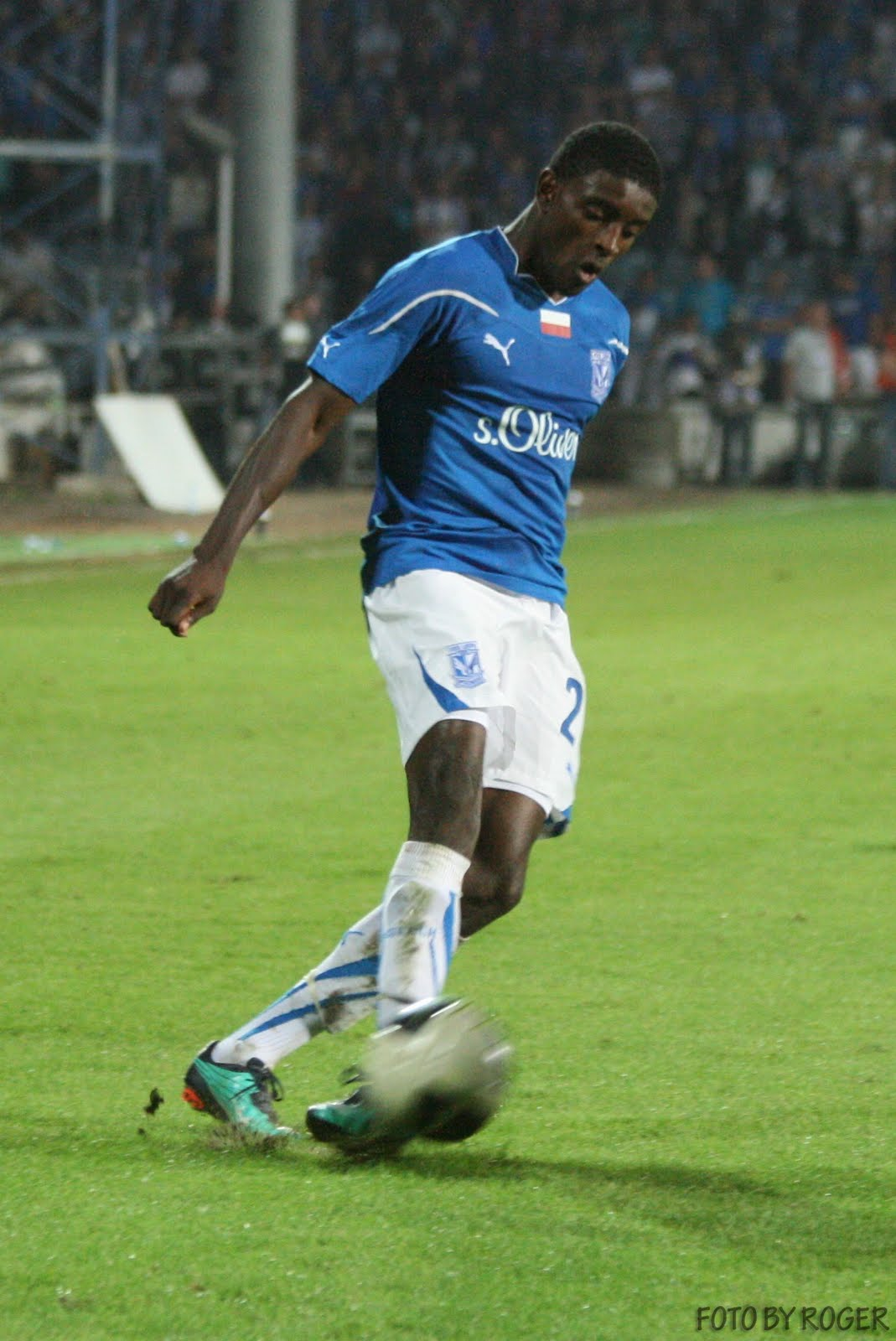 Football player from the DR Congo - Joël Tshibamba during the Champions League qualifier KKS Lech Poznań - AS Sparta Prague